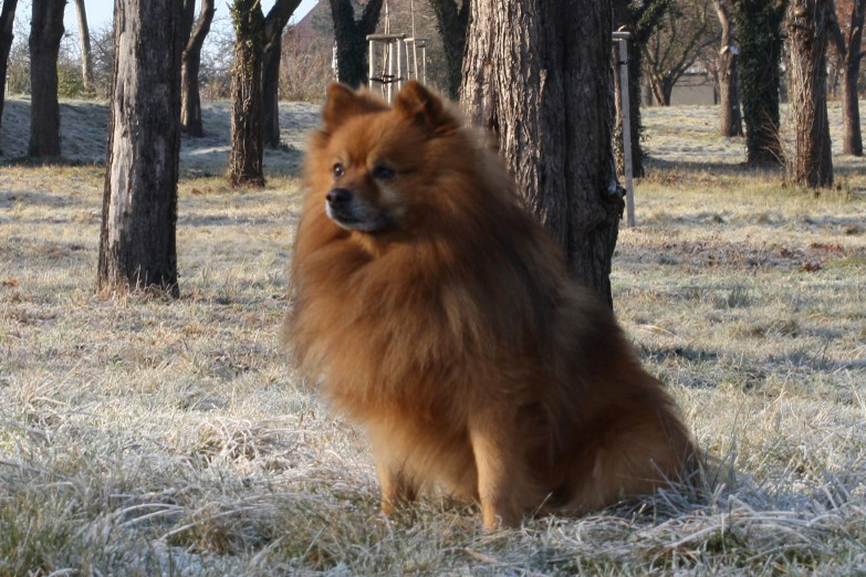 Brown hair.